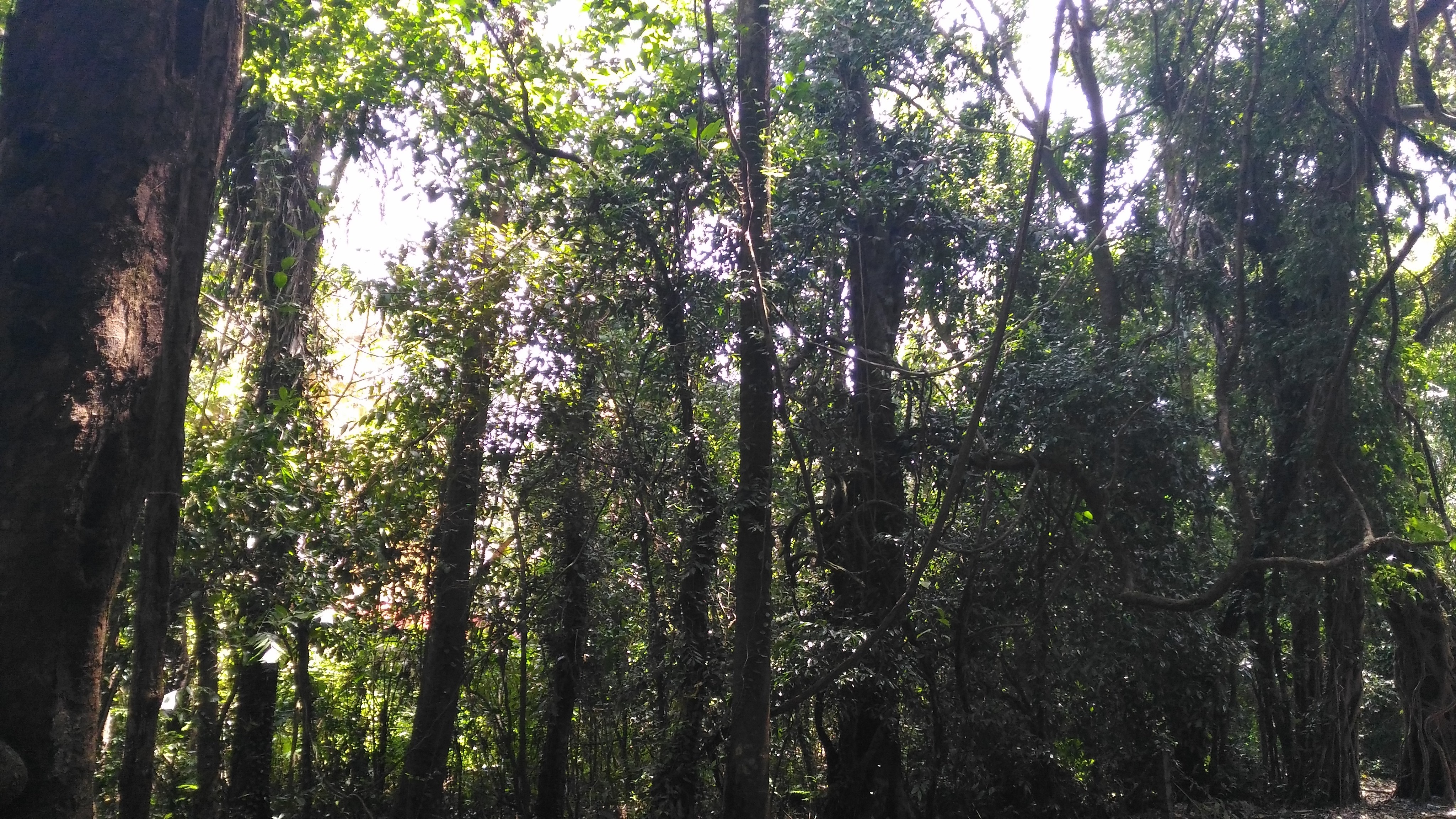 Mannampurathu kavu near to Nileswar in Kasaragod